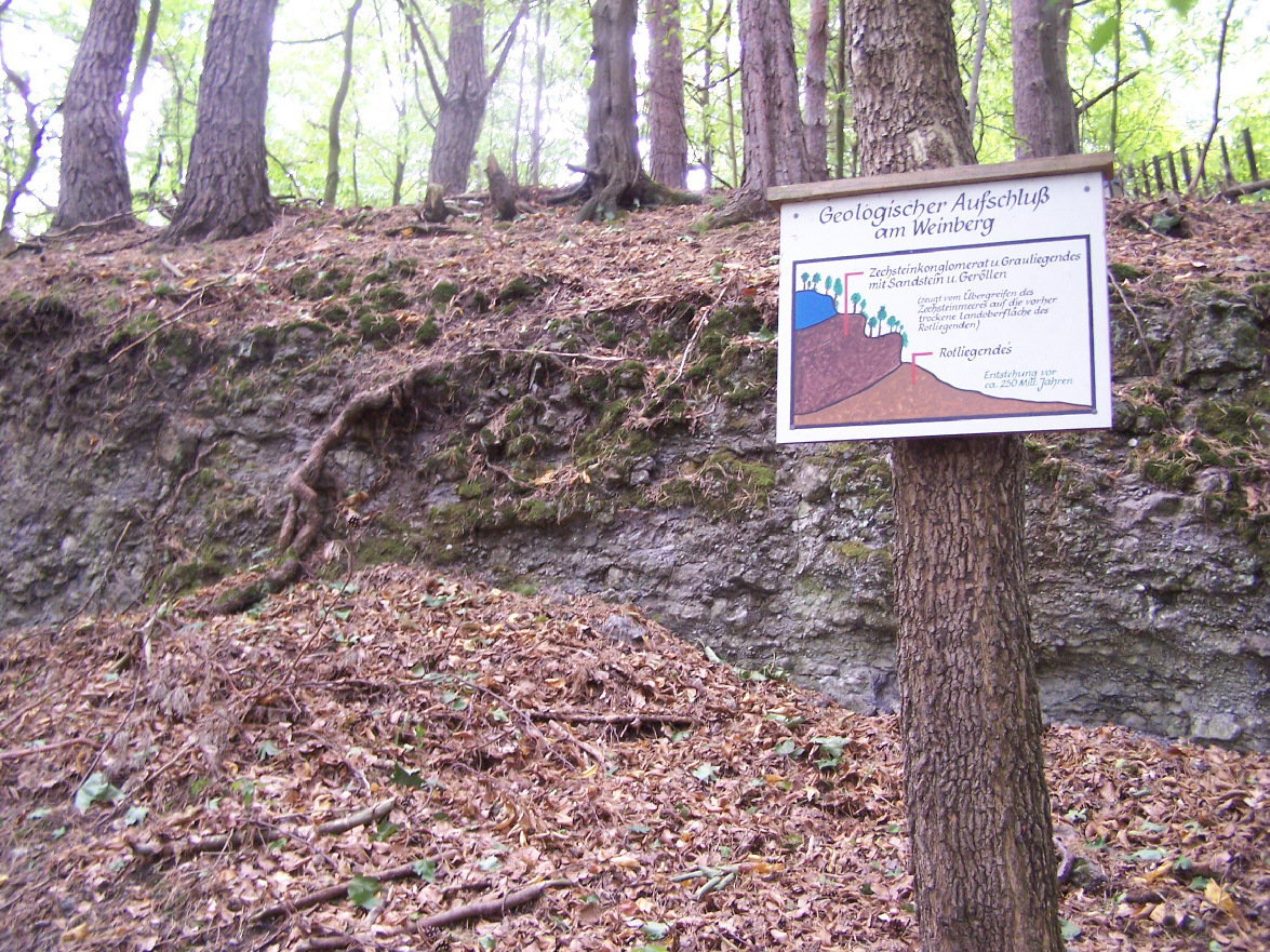 A prepareted geological structure at the Weinberg nature study path.